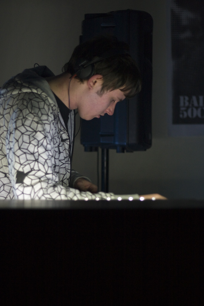 A secret party held in a West End Flat featuring Hudson Mohawke and Ikonika (Hyperdub)